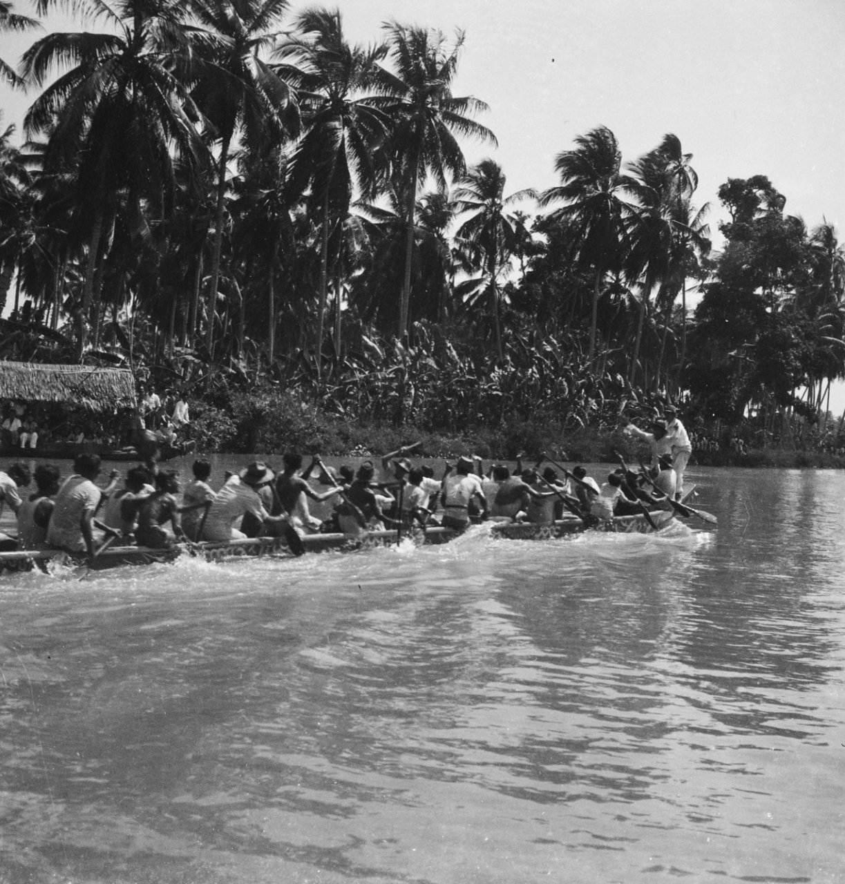 Peh Cun (dragonboat) Festival in Tangerang.